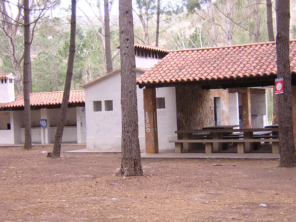 puente alta